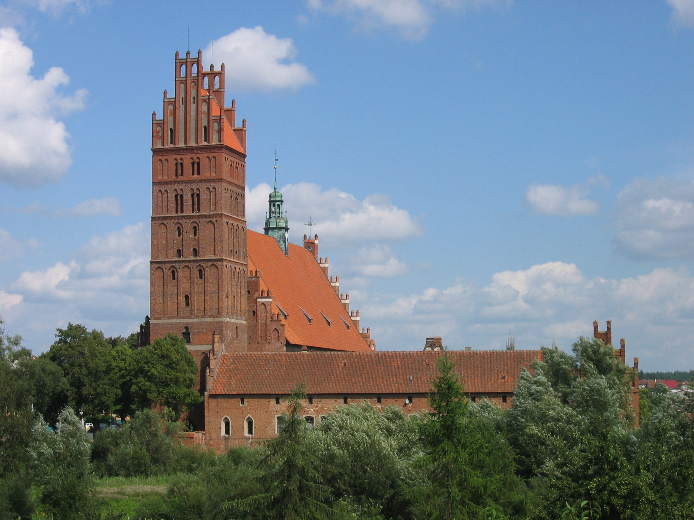 Collegiate church of the Holy Saviour and All Saints in Dobre Miasto, end of 14th century